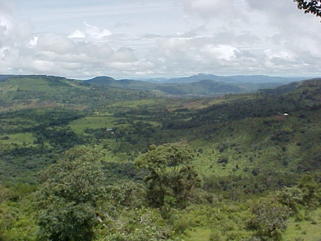 View from SIB hotel in Dalaba, Guinea. A place I want to see again in my life. What a view and I will have a better camera this time!